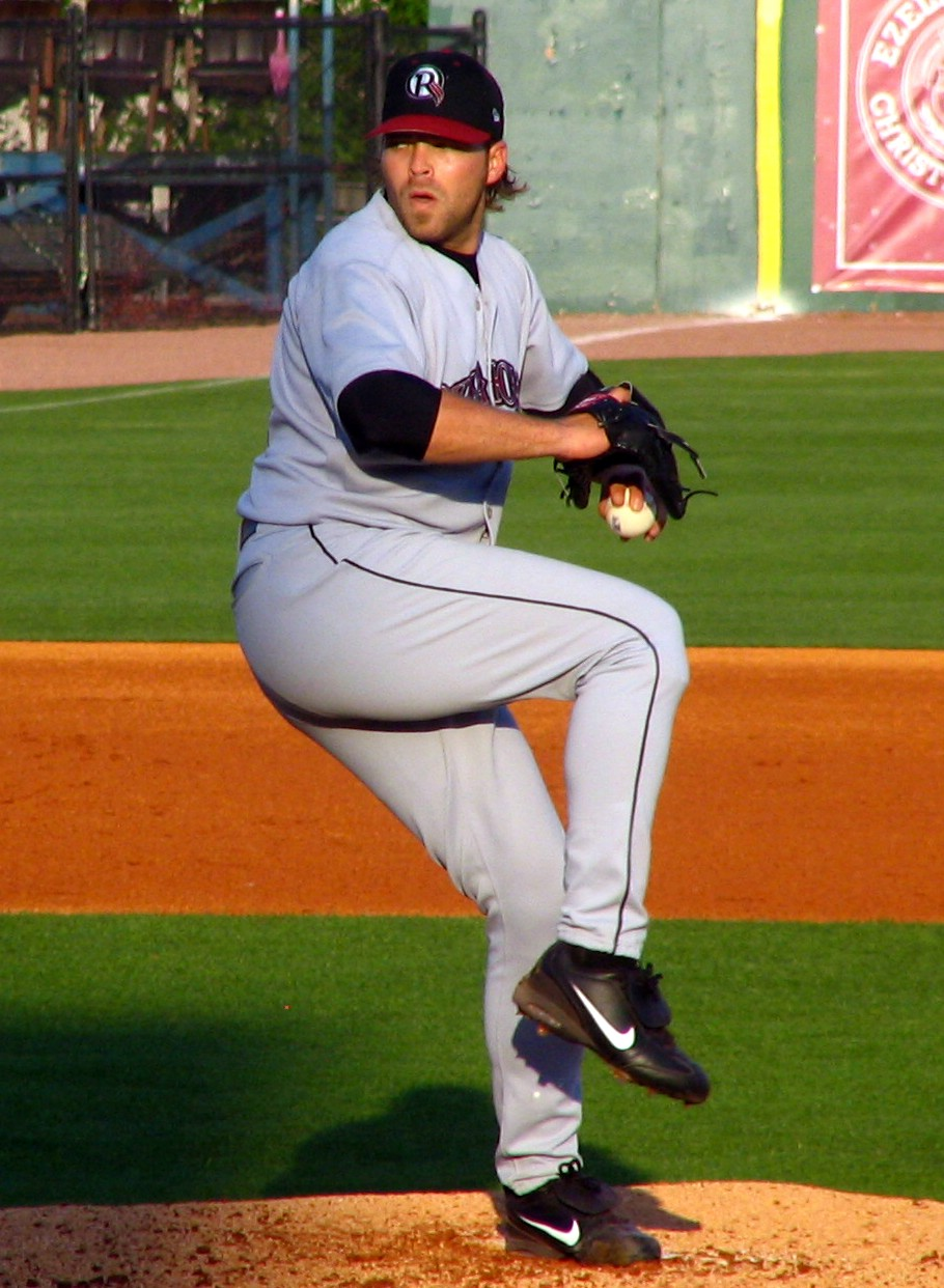 John Rheinecker of the Oklahoma RedHawks delivers a pitch during a 2006 game in Nashville, Tennessee.